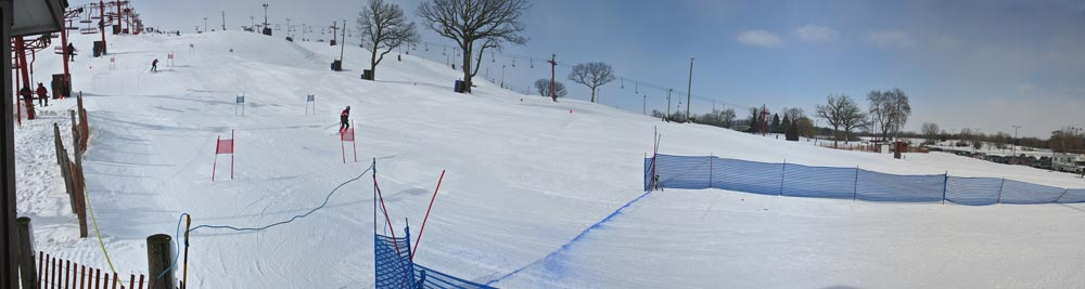 Wilmot Mountain Ski Resort. By the #8 chairlift at the base of Superior. The run is setup for a DH ski race. Wilmot, Wisconsin. Photo by Richard C. Drew.